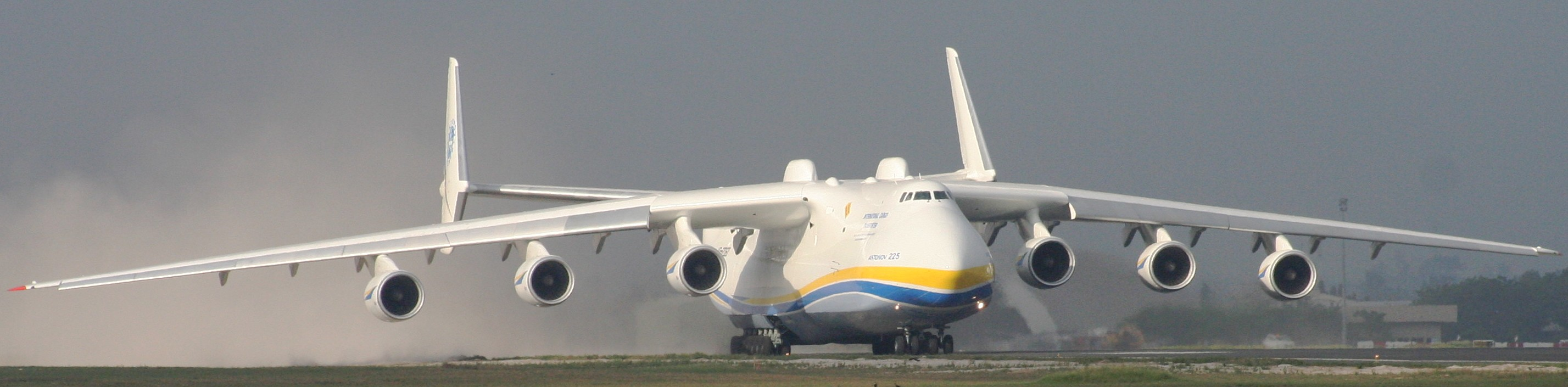 A picture of the Antonov An-225 plane